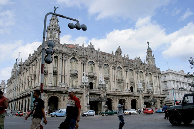 Great Threatre of Havana at the Galician Centre